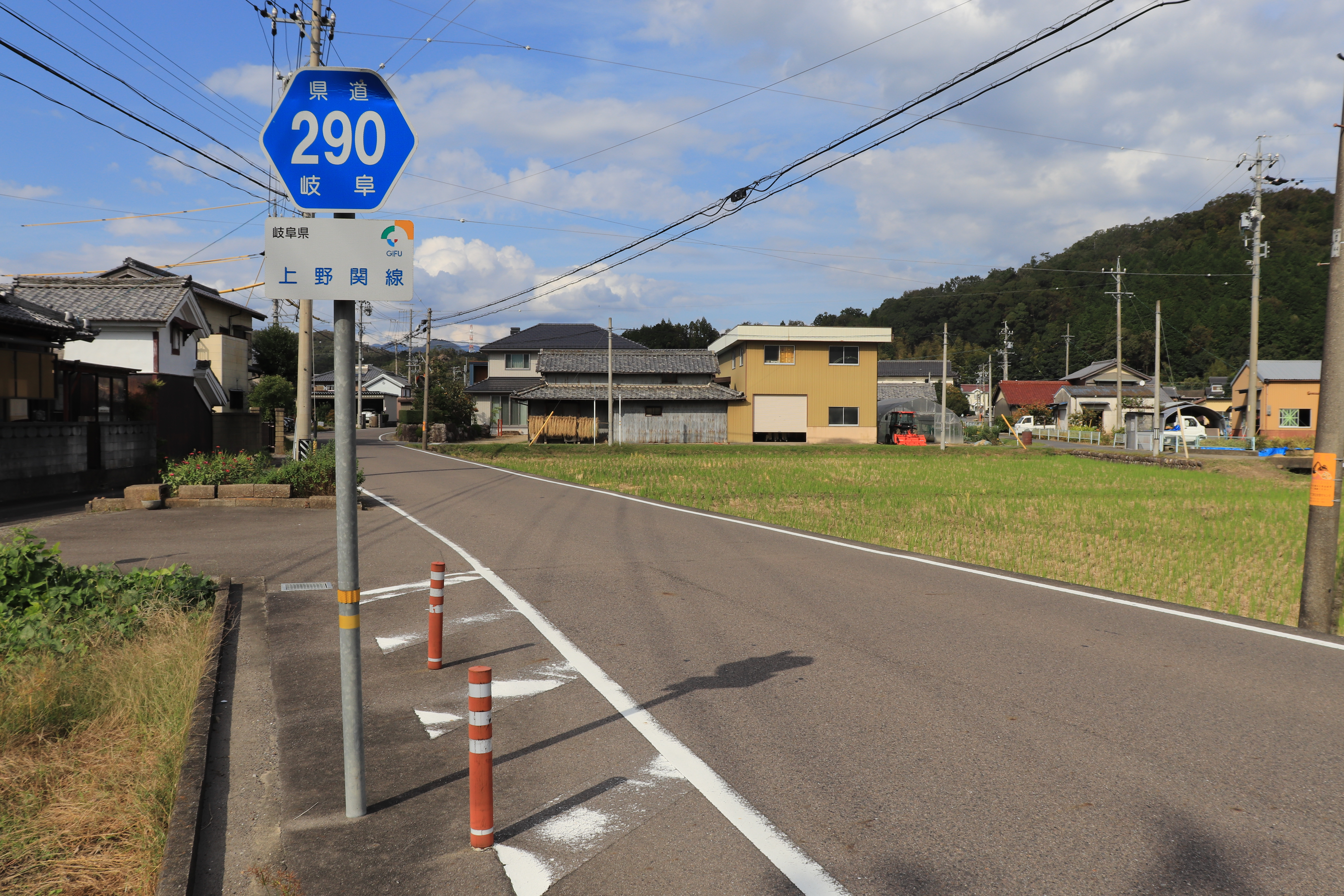 Gifu Prefectural Road Route 290 (Ueno-Seki Line) in Oze, Seki, Gifu Prefecture, Japan.